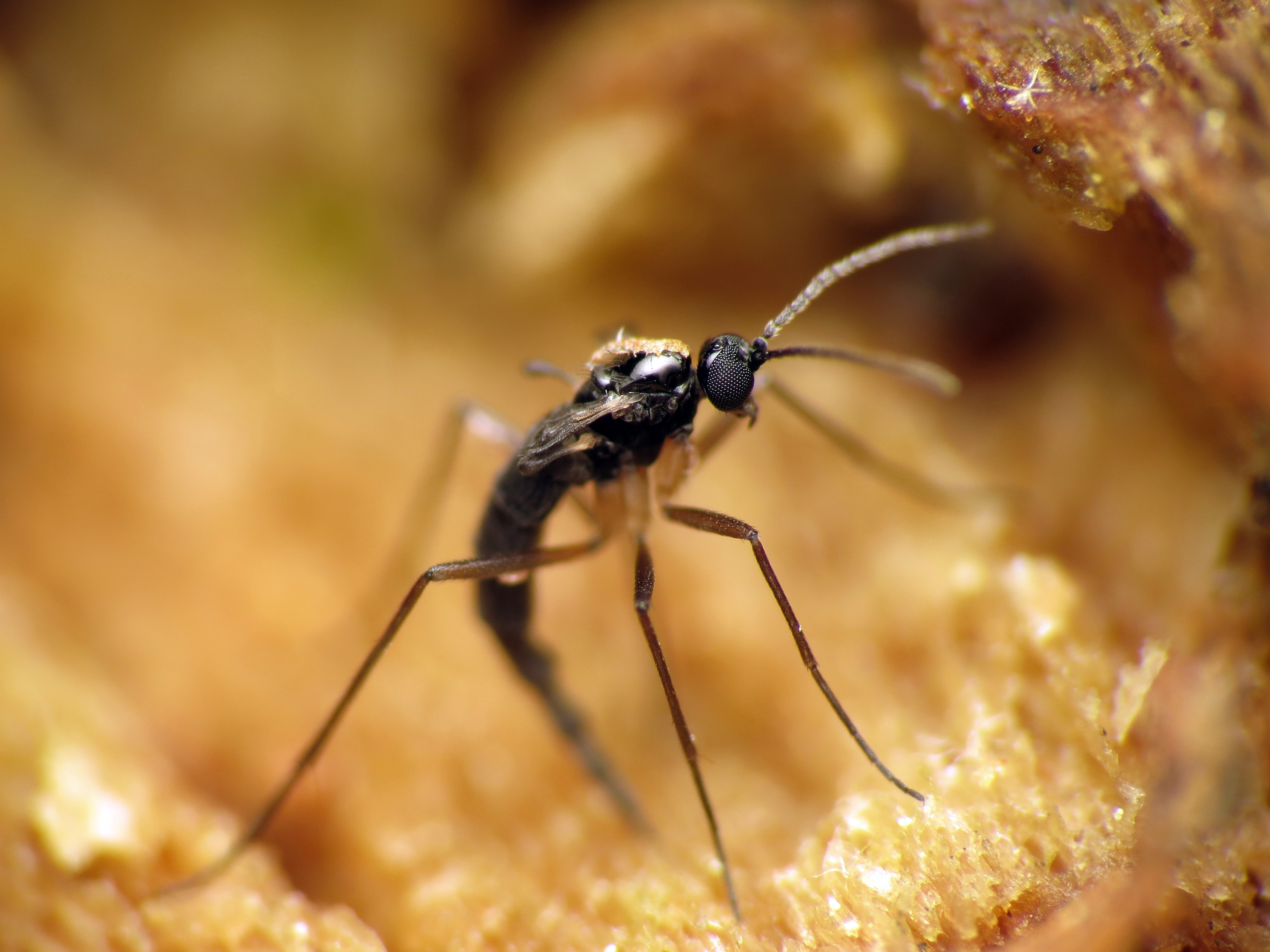 Sciaridae sp. ovipositing into a soggy log. Rock Creek Park, Washington, DC, USA.